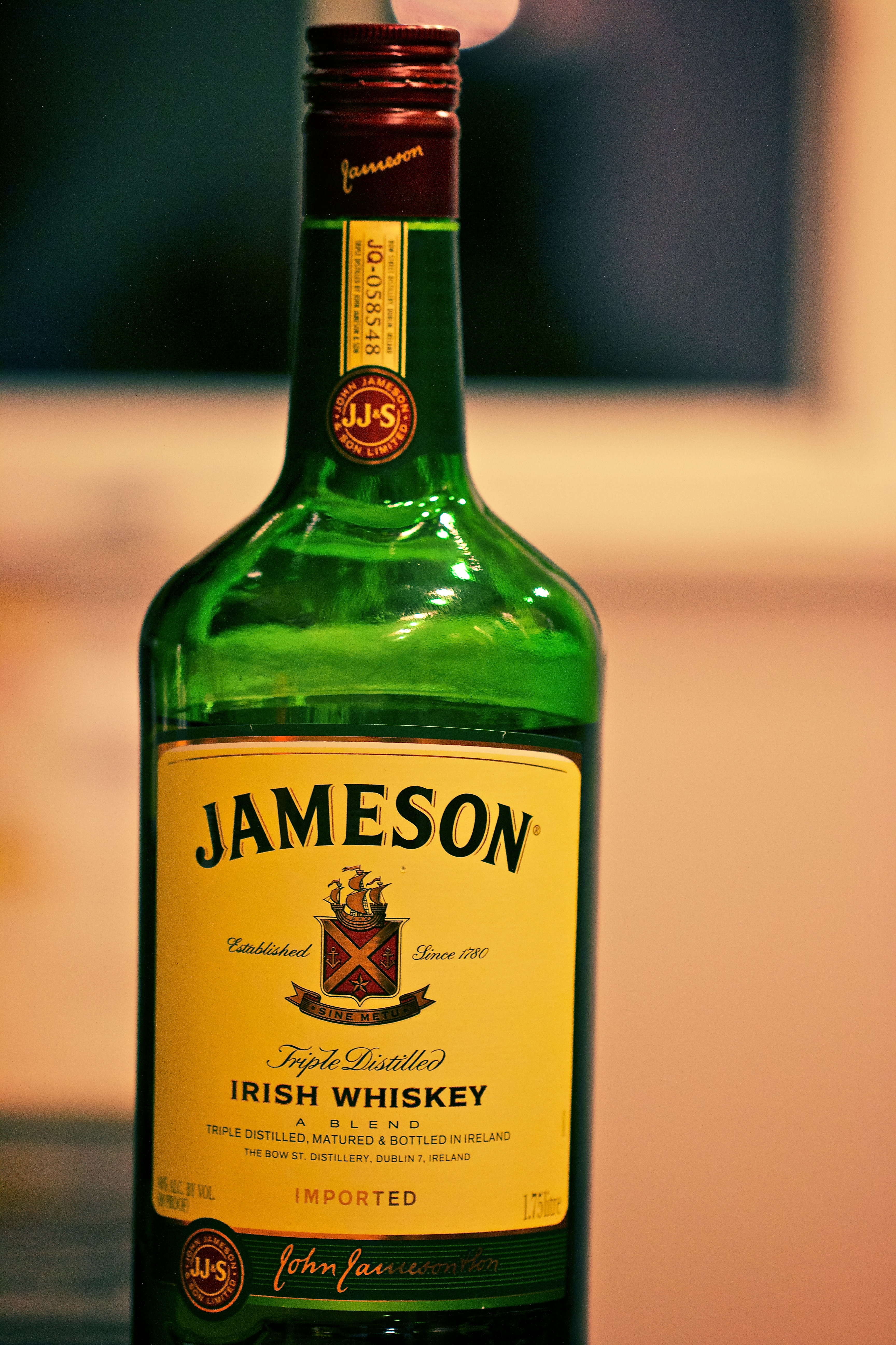 2014 daily photo #8/365